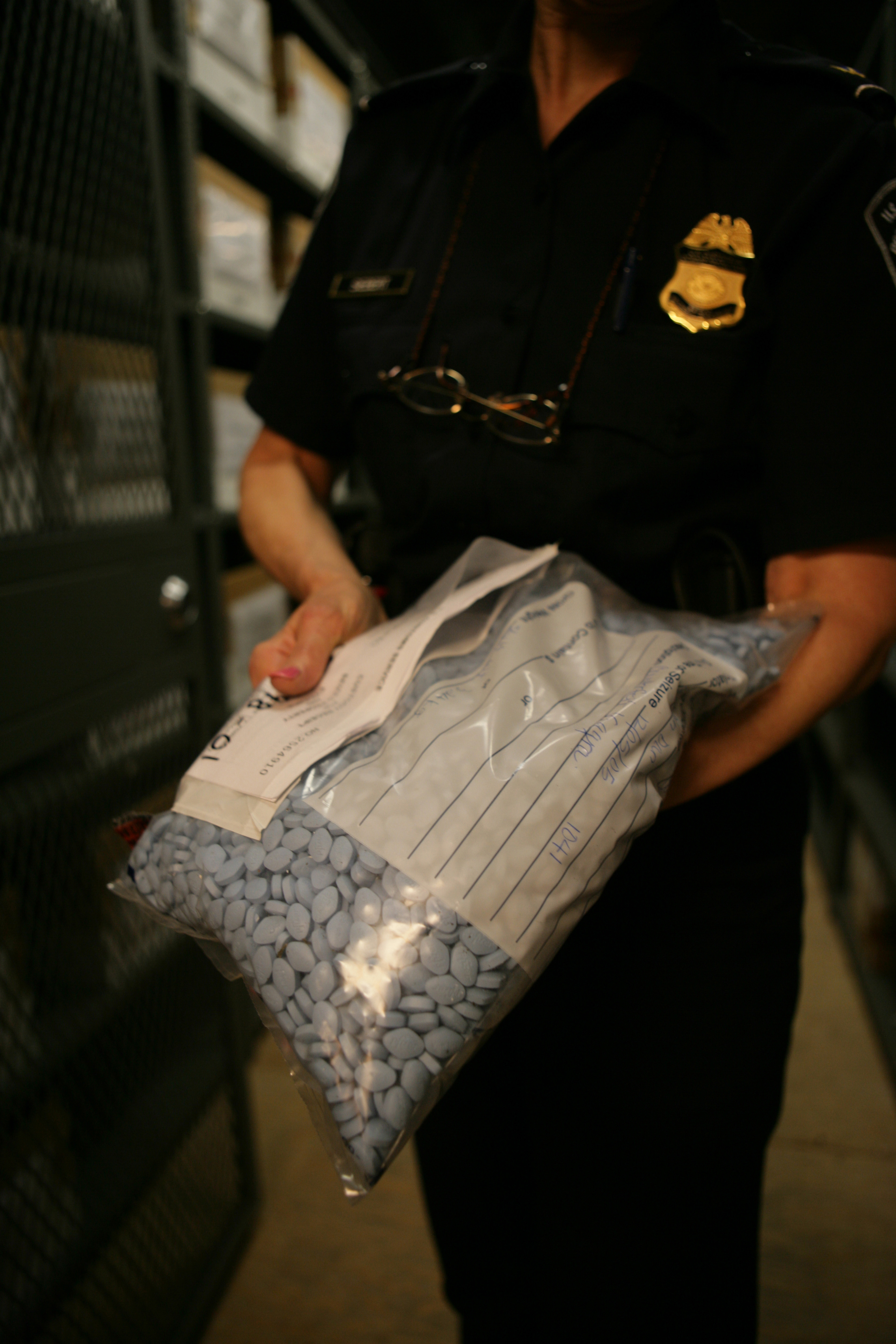 A CBP officer displays a large bag of seized counterfeit[clarification needed] Viagra phamaceuticals. (Is this "counterfeit" because of trademark violation, patent violation (the silly renewed one that was tossed out in the UK) or because of quality issues?)